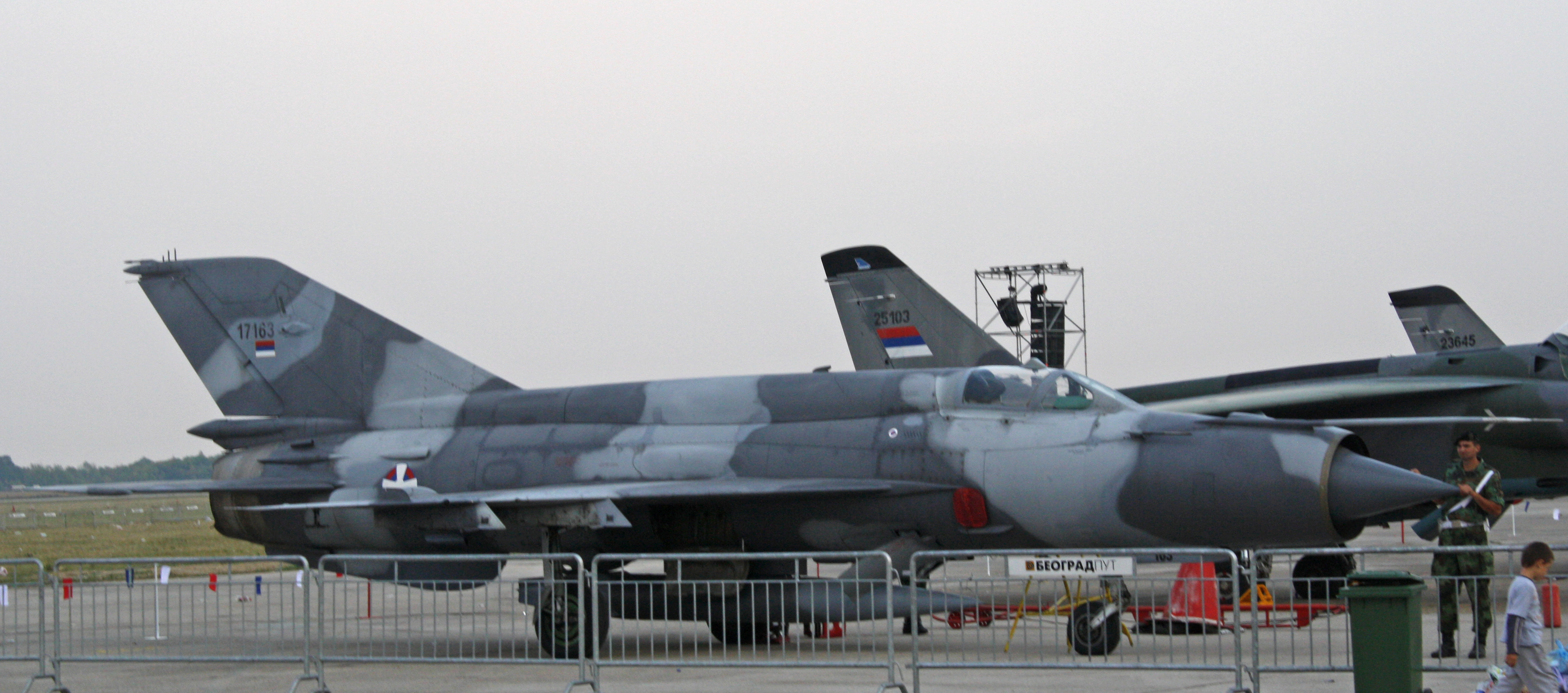 MiG-21 bis fighter aircraft No.17163 of 101. Fighter-Aviation Squadron, 204th Air Base of Serbian Air Force during the Batajnica 2009 airshow. Ловачки авион МиГ-21 бис број 17163 из састава 101 ловачке авијациске ескадриле 204. Авио базе Ваздухопловства и ПВО Војске Србије на аеромитингу Батајница 2009.